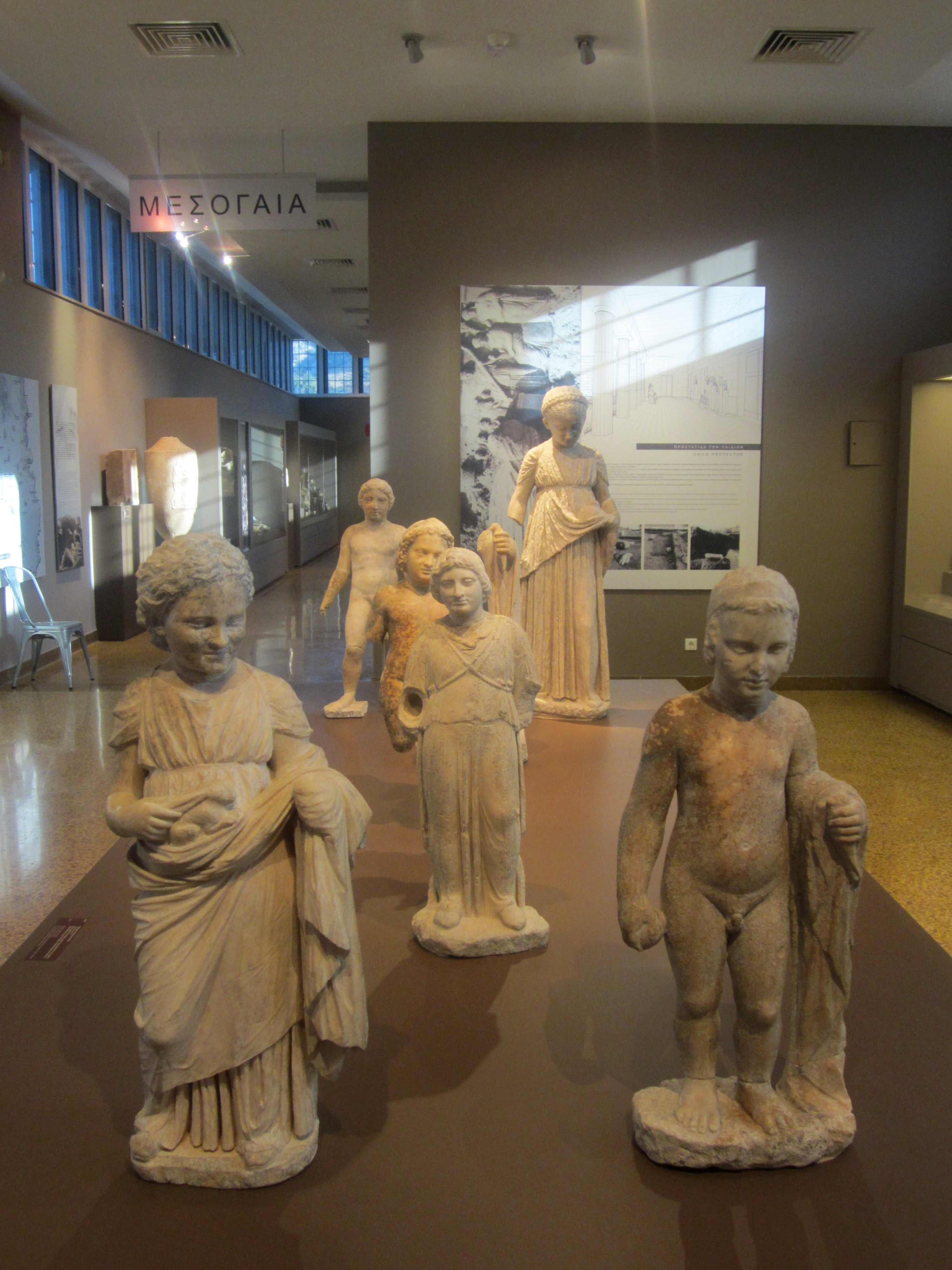 Statues representing children. Archaeological Museum of Brauron, Greece.